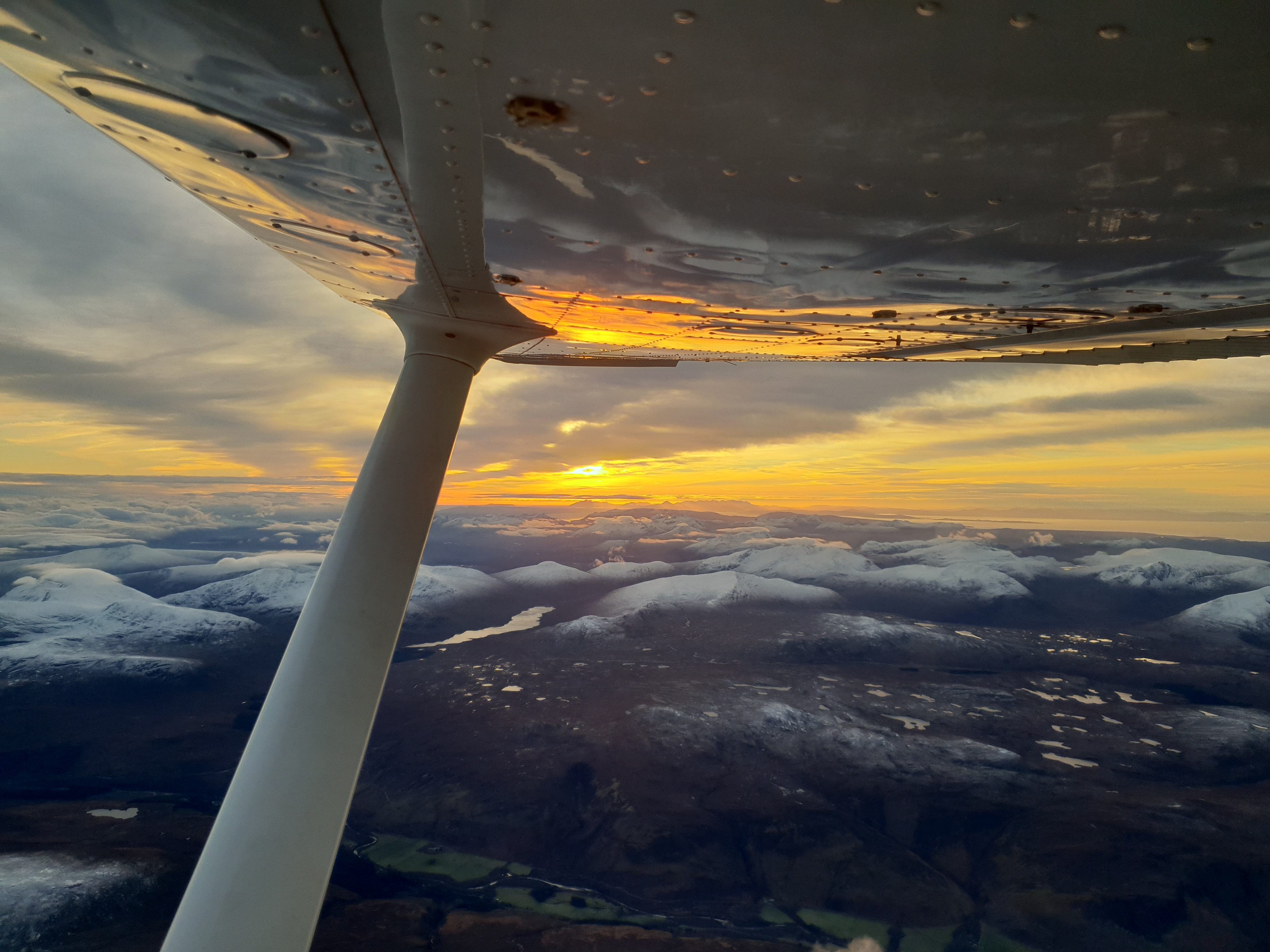 Air Tours - Highland Aviation